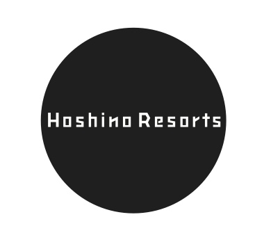 Logo Hoshino resorts